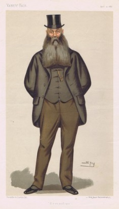 Caricature of Sir JH Kennaway Bt MP. Caption read "Devonshire".